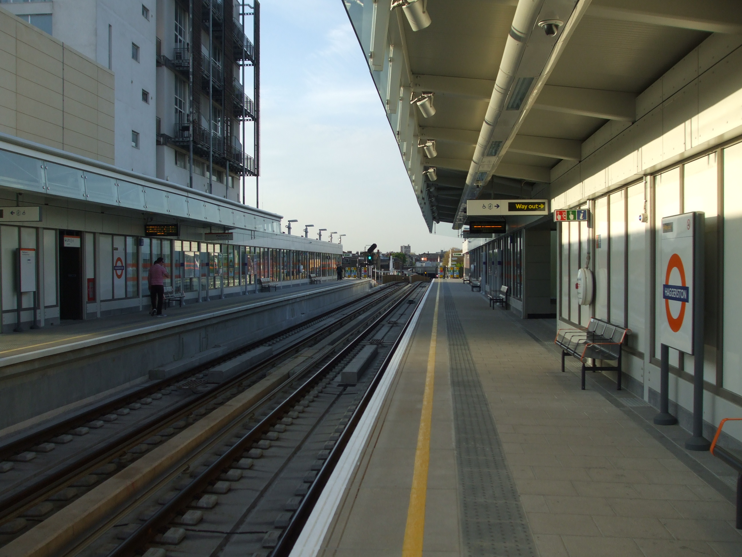 Haggerston station looking north on day of opening as part of the London Overground.